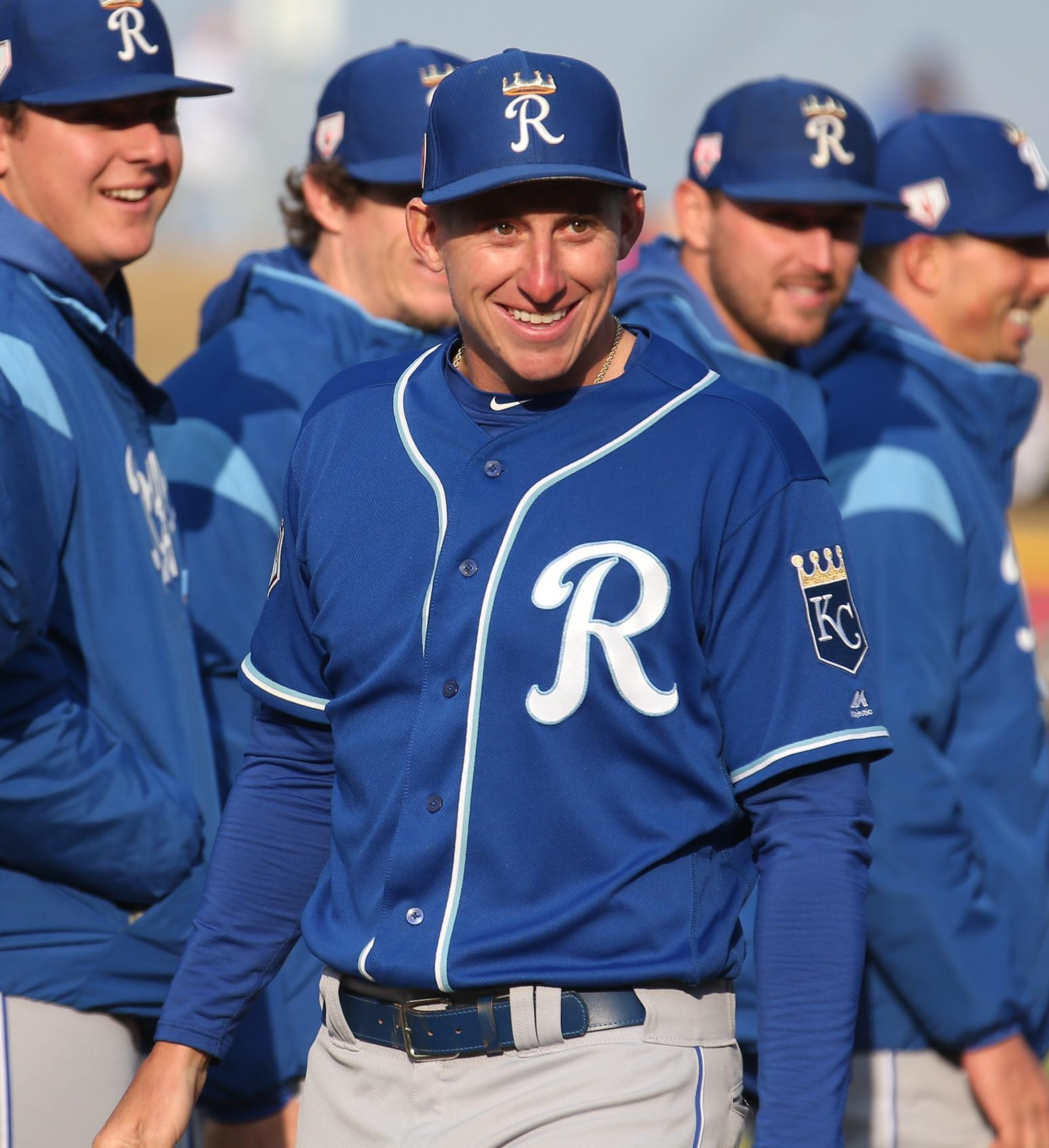 Frank Schwindel with the Kansas City Royals during a 2019 game at Werner Park in Omaha.